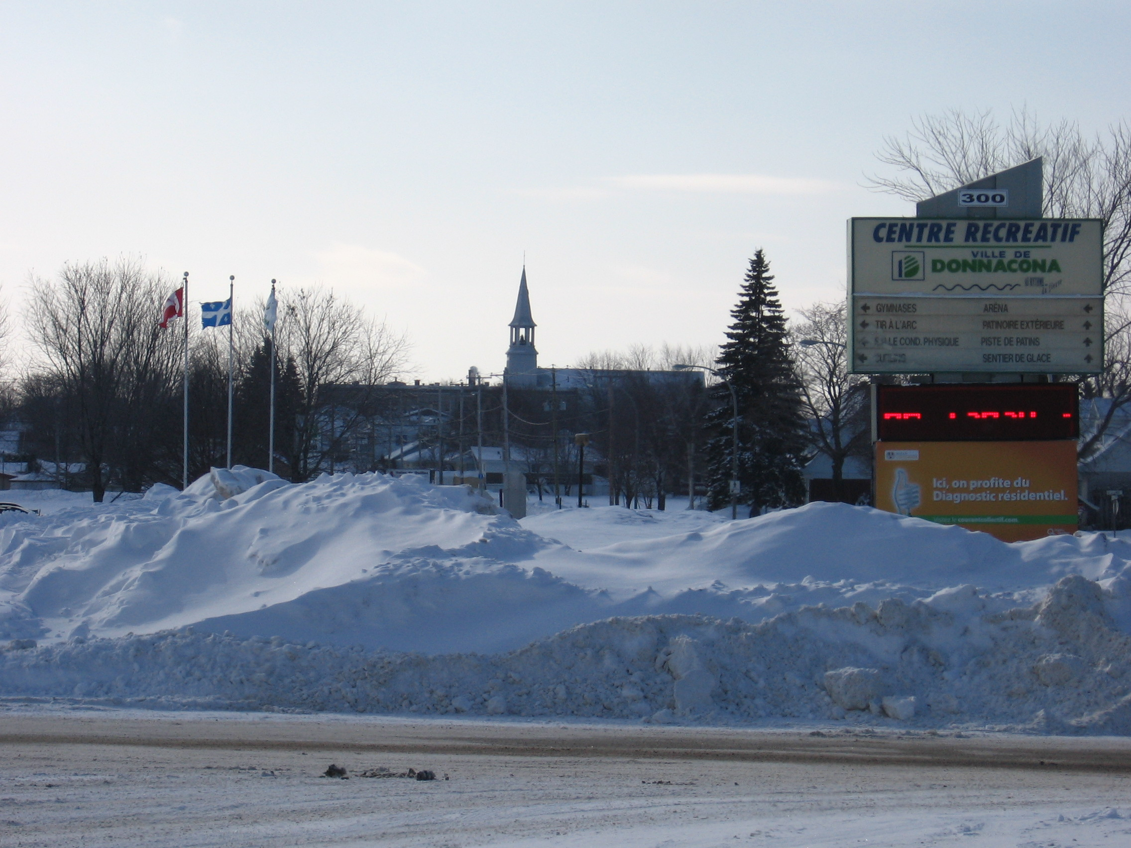 Donnacona